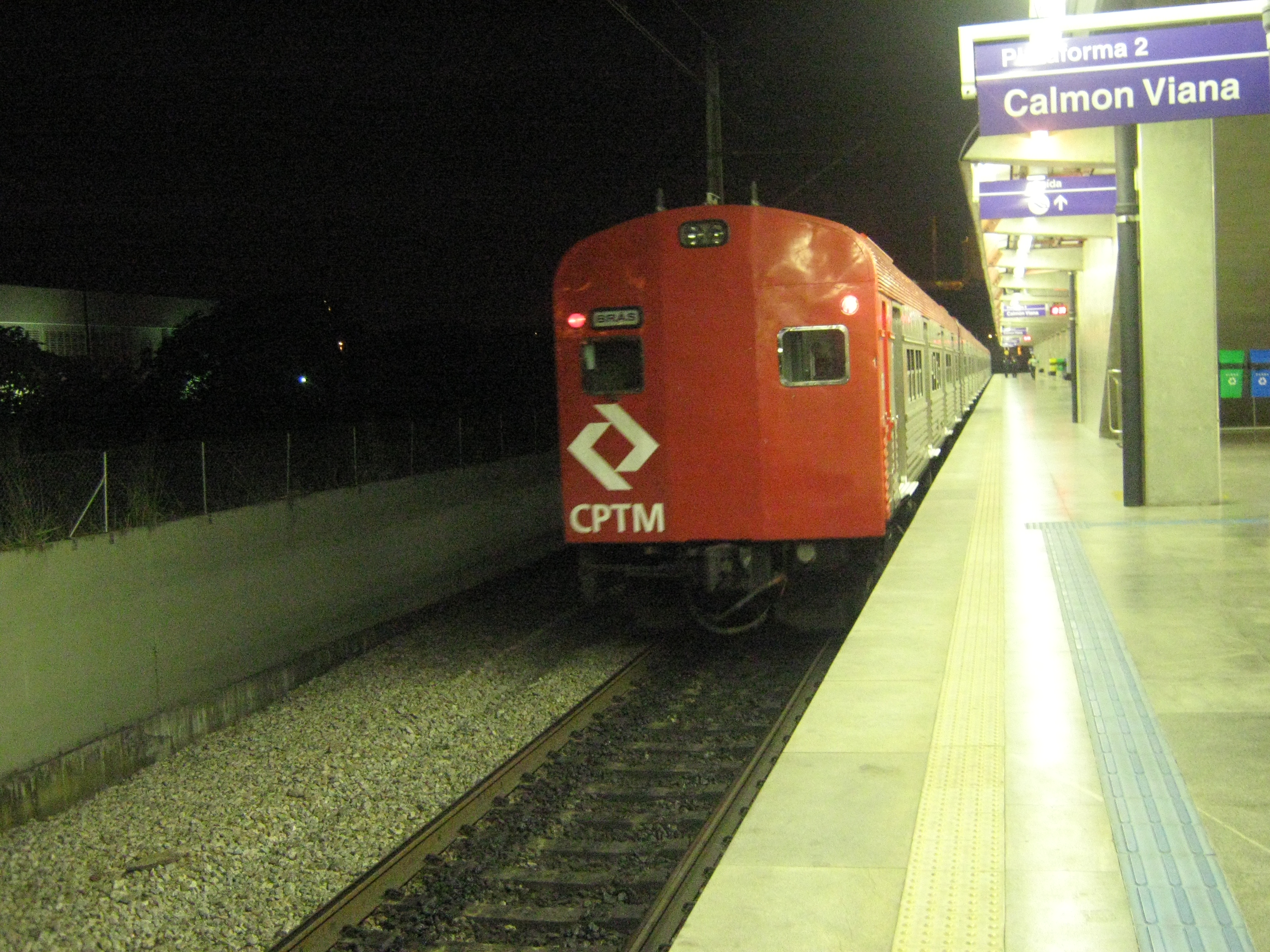 The EMU CPTM 1600 Series of CPTM.